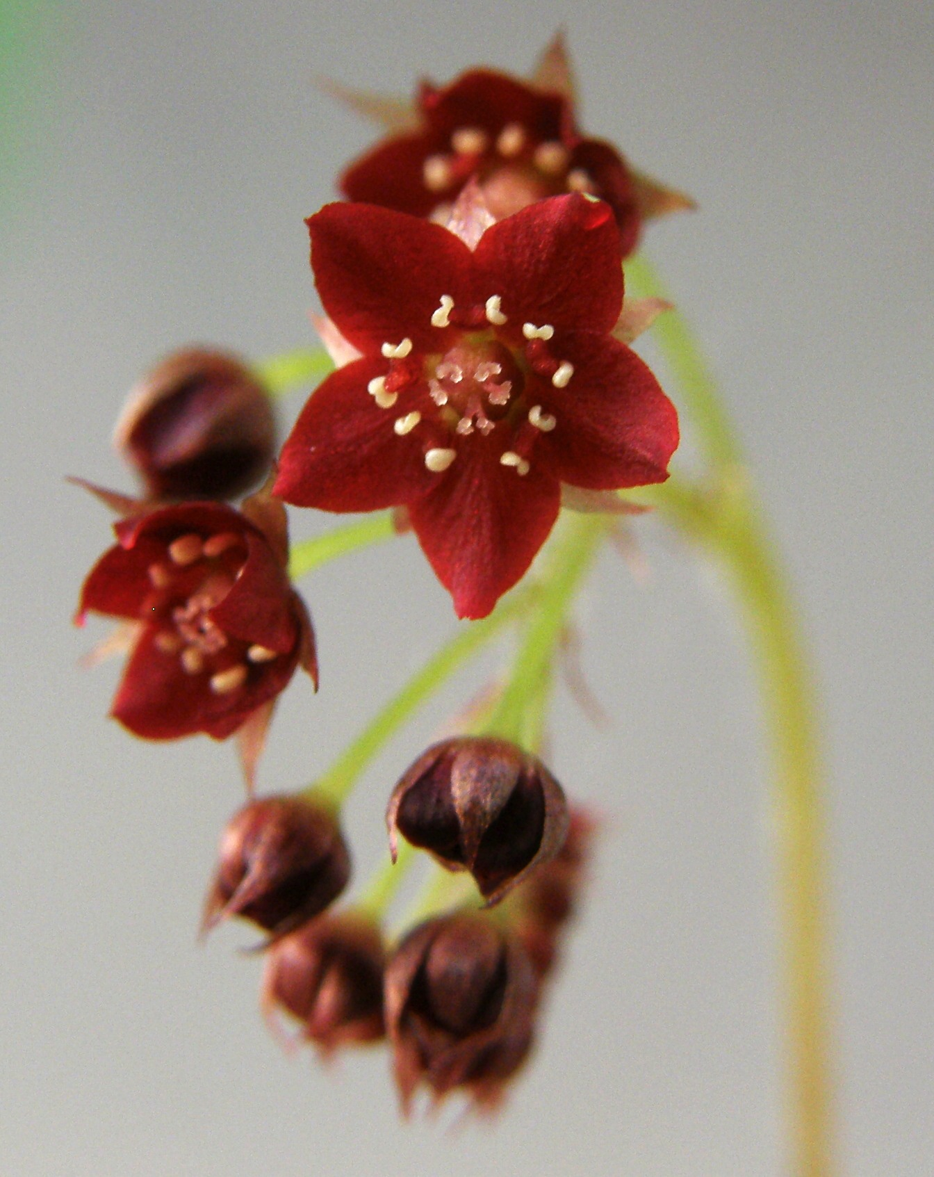 flower of Drosera adelae